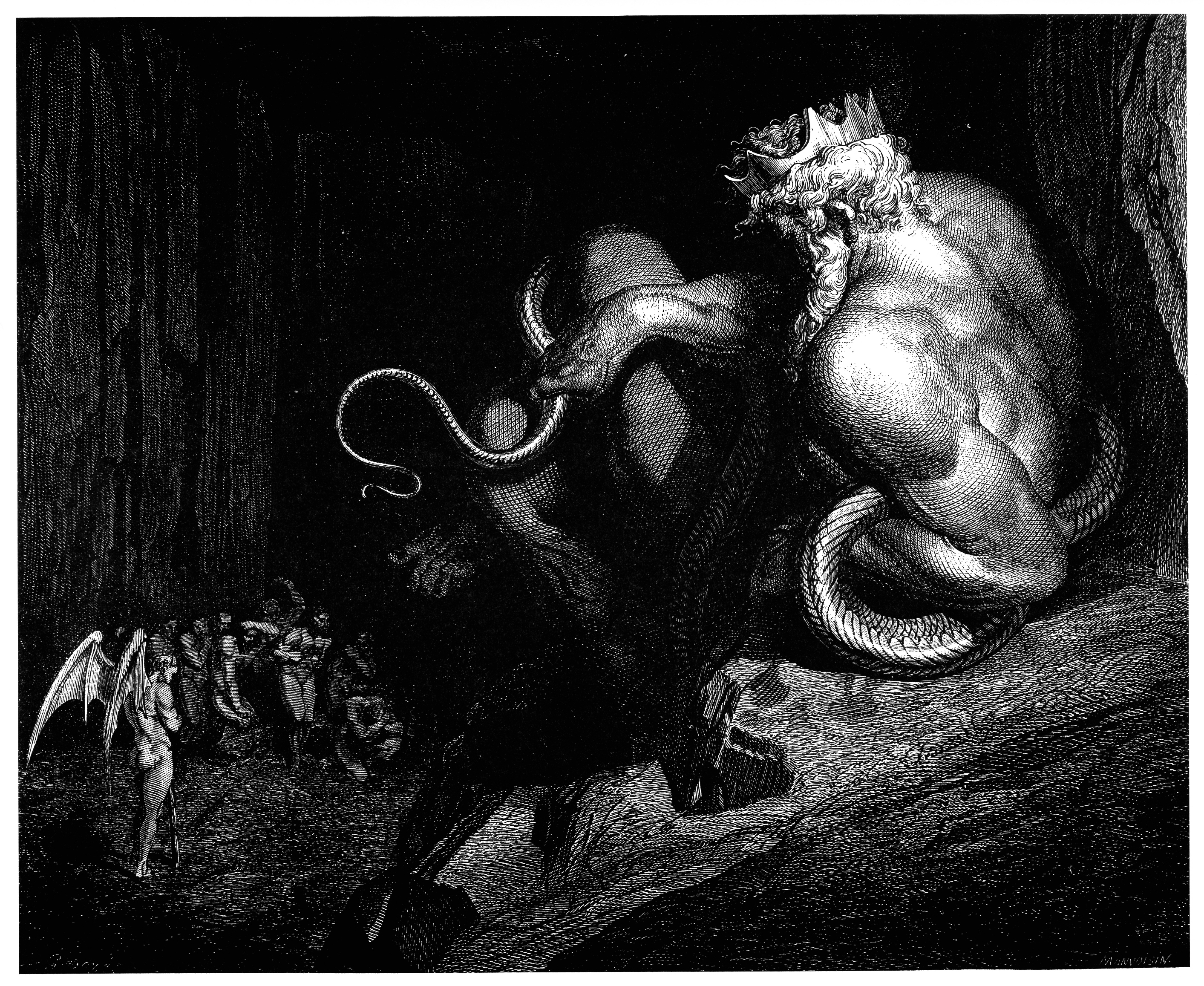 Gustave Doré's illustration to Dante's Inferno. Plate XIII: Canto V: Minos judges the sinners. "There standeth Minos horribly, and snarls; Examins the transgressions at the entrance; Judges, and sends according to he girds them." (Longfellow's translation). To make it a bit clearer: Each time his tail wraps round the sinner represents one circle further down. I believe it's a bull's tail in the original Italian, but Doré was illustrating Longfellow, poor chap.